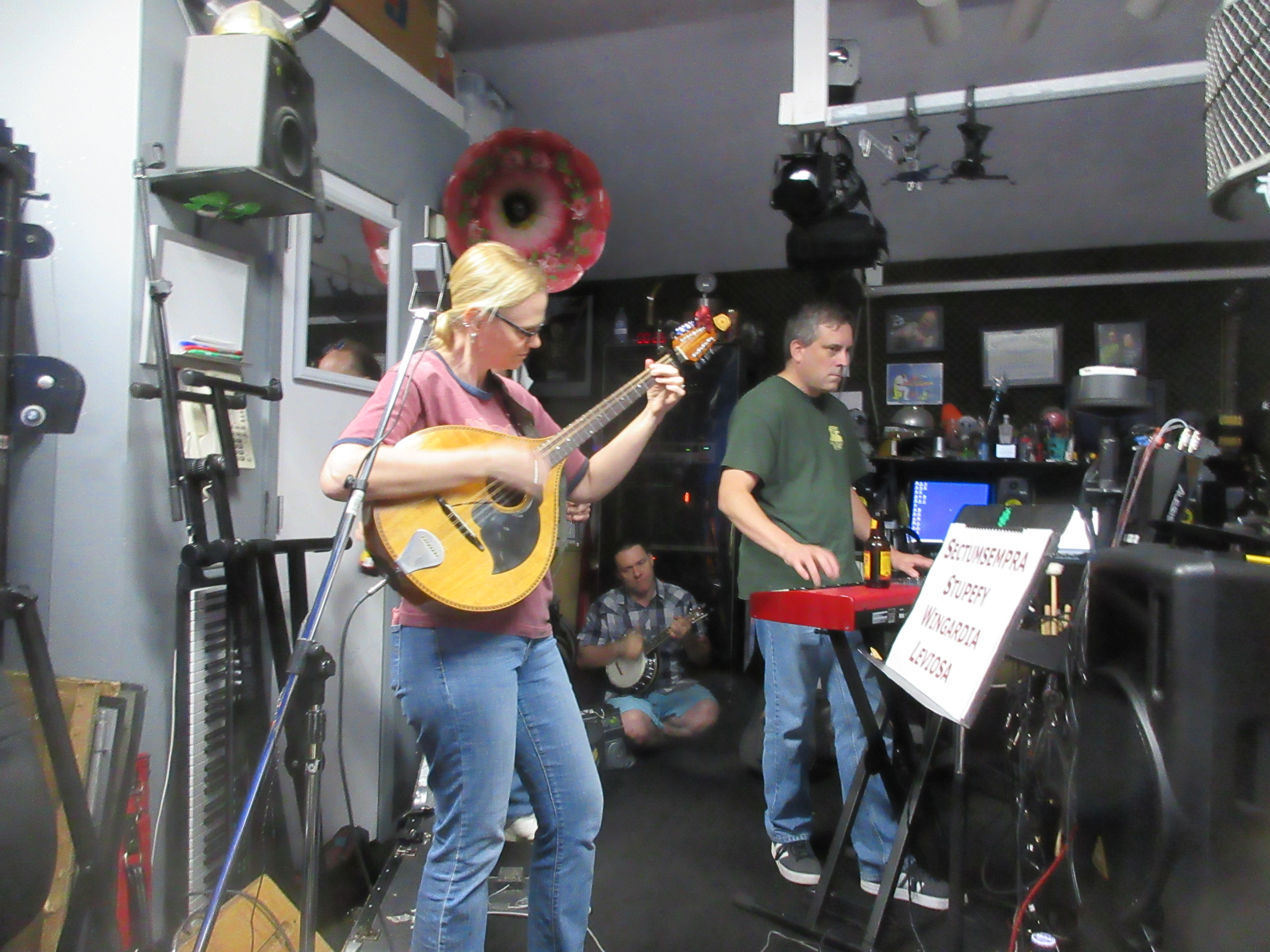 Reahearsing with the New Orleans Steamcog Orchestra at the Secret Lab. Personality rights warningAlthough this work is freely licensed or in the public domain, the person(s) shown may have rights that legally restrict certain re-uses unless those depicted consent to such uses. In these cases, a model release or other evidence of consent could protect you from infringement claims.